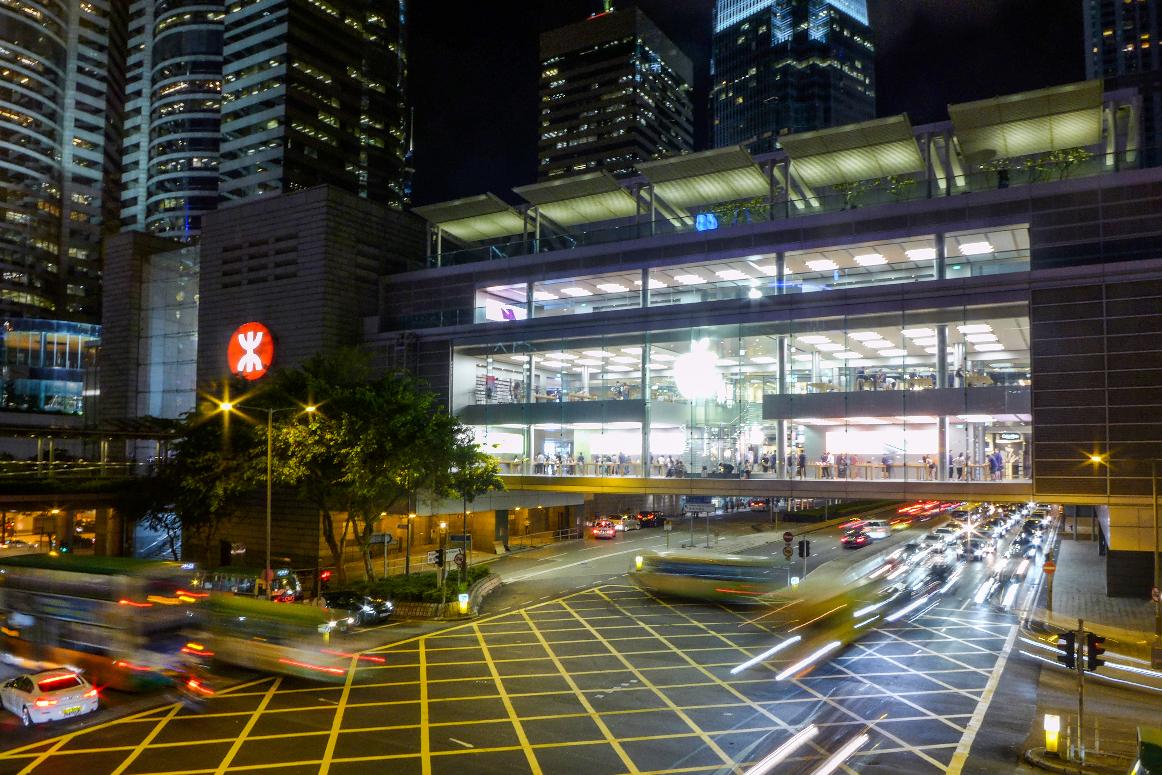 ifc Apple Store, Hong Kong